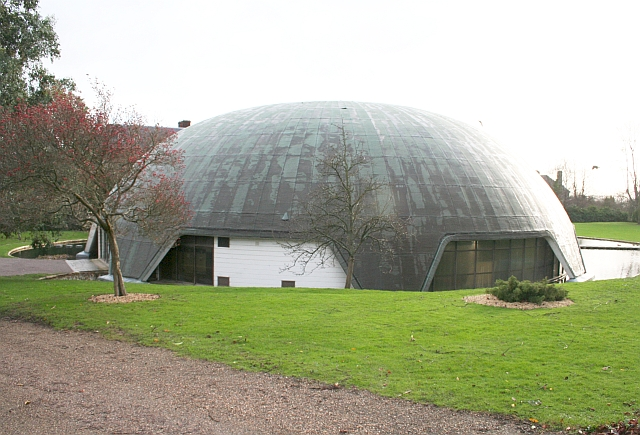 The Edinburgh Dome, Imperial Road, Malvern, Worcestershire. The building belongs to Malvern St James School and was built as a sports hall. It was named after the Duke of Edinburgh who opened it in 1978. The sports hall has now moved to a new one on Barnards Green Road. In 2006 the school applied for planning permission to demolish the dome but was turned down. In 2009 the Department of Culture, Media and Sport made the dome a Grade II listed building. The dome is a ‘’concrete parashell and is the only one in the country. It was built by a pioneering technique in which liquid cement was poured onto a special neoprene membrane and then pneumatically inflated; in this case to a height of 11 metres. It took just an hour to complete the inflation and two weeks to complete the building. A moat was built around the base and openings made for doors, windows and for light to reflect off the surrounding water to light the inside of the dome. The parashell was invented by an Italian, Dante Bini, in 1967. The architects here were Godwin and Cowper of Stourport. The construction technique appeared simple, but in fact required a great deal of meticulous planning and seemingly a good deal of luck, which perhaps explains why this structure is still unique in the UK!